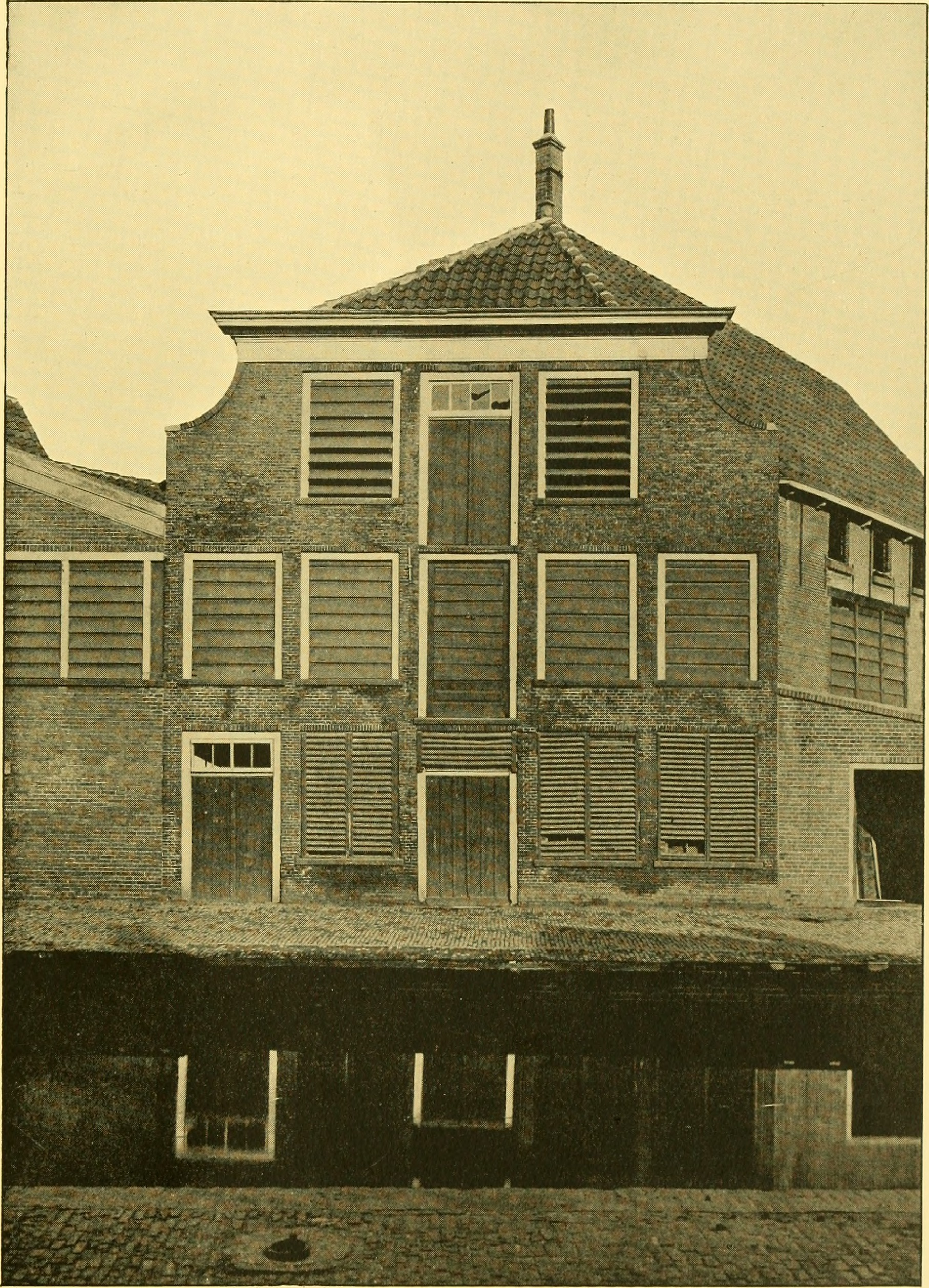 Title: Antony van Leeuwenhoek and his "Little animals"; being some account of the father of protozoology and bacteriology and his multifarious discoveries in these disciplines; Year: 1932 (1930s) Authors: Dobell, Clifford, 1886-1949; Leeuwenhoek, Antoni van, 1632-1723 Subjects: Leeuwenhoek, Antoni van, 1632-1723; Protozoa; Bacteria; Bacteriology; Microbiology; Science Publisher: New York, Harcourt, Brace and company Text Appearing Before Image: PLATE ir Text Appearing After Image: THE HOUSE IN WHICH LEEUWENHOEK WAS BORN (1632) in the East-End (Oostemde) of Delft : as it appeared in November, 1926. [identified by Mr L. G. N. Bouricius. Now demolished.] facing p. 20